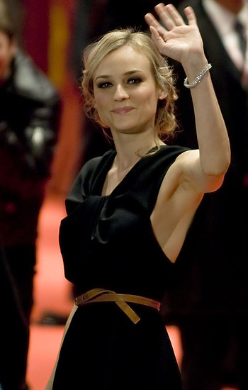 Diane Kruger, Member of the international jury, Opening of the 58th Berlin International Film Festival On request of some friends. A little blurry but a nice smile.